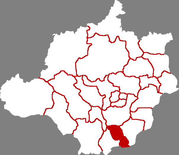 Location of Boye county in Baoding City, China